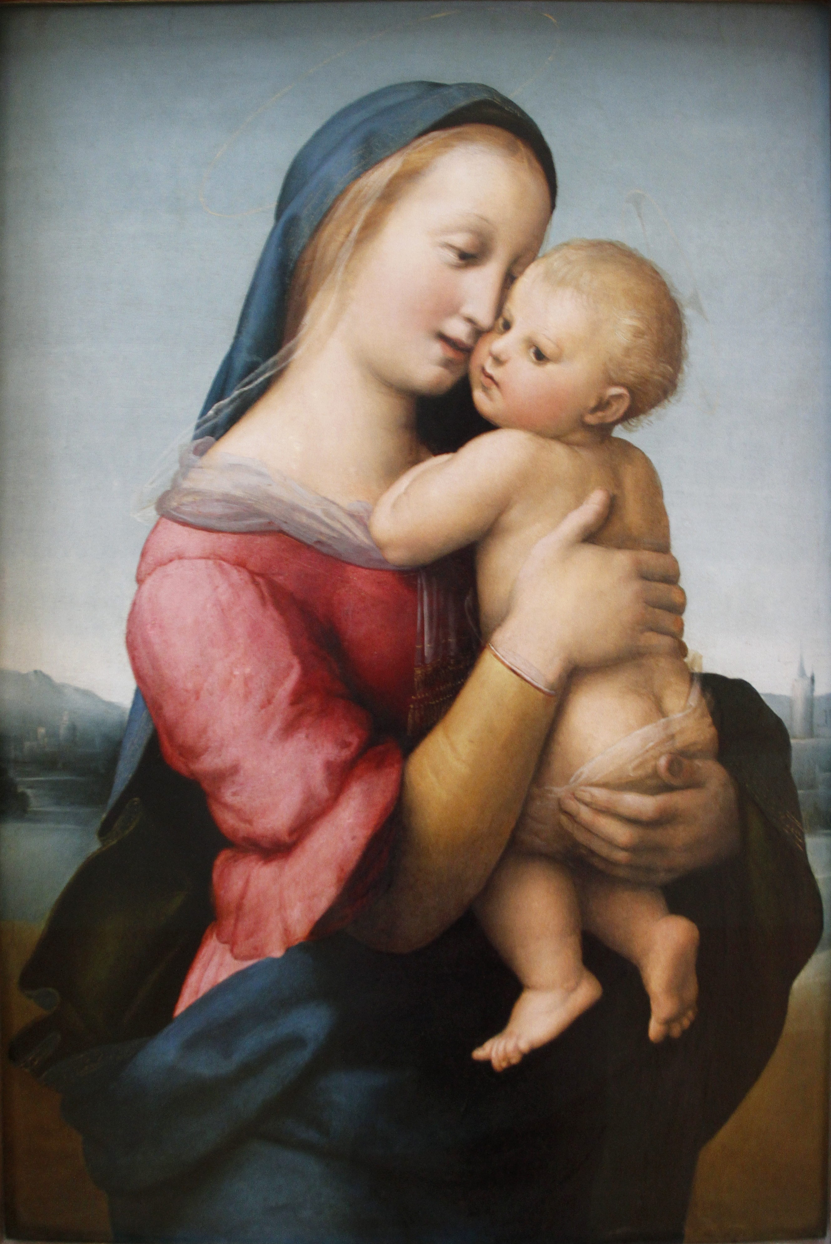 Alte Pinakothek - Munich - Germany